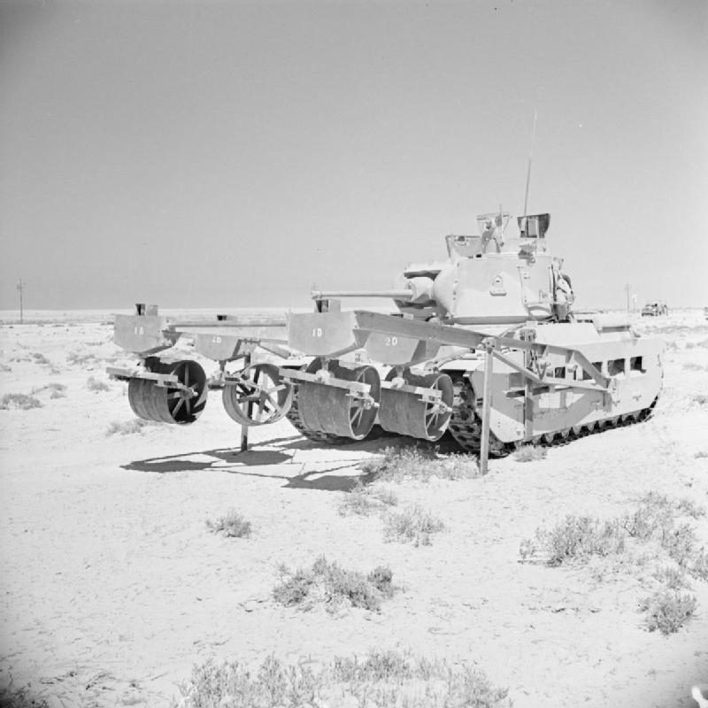 The British Army in North Africa 1942 A Matilda tank equipped with AMRA Mk 1a (Anti-Mine Roller Attachment), 28 August 1942. The device consisted of Fowler rollers on a heavy frame pushed in front of the tank to detonate mines by pressure.